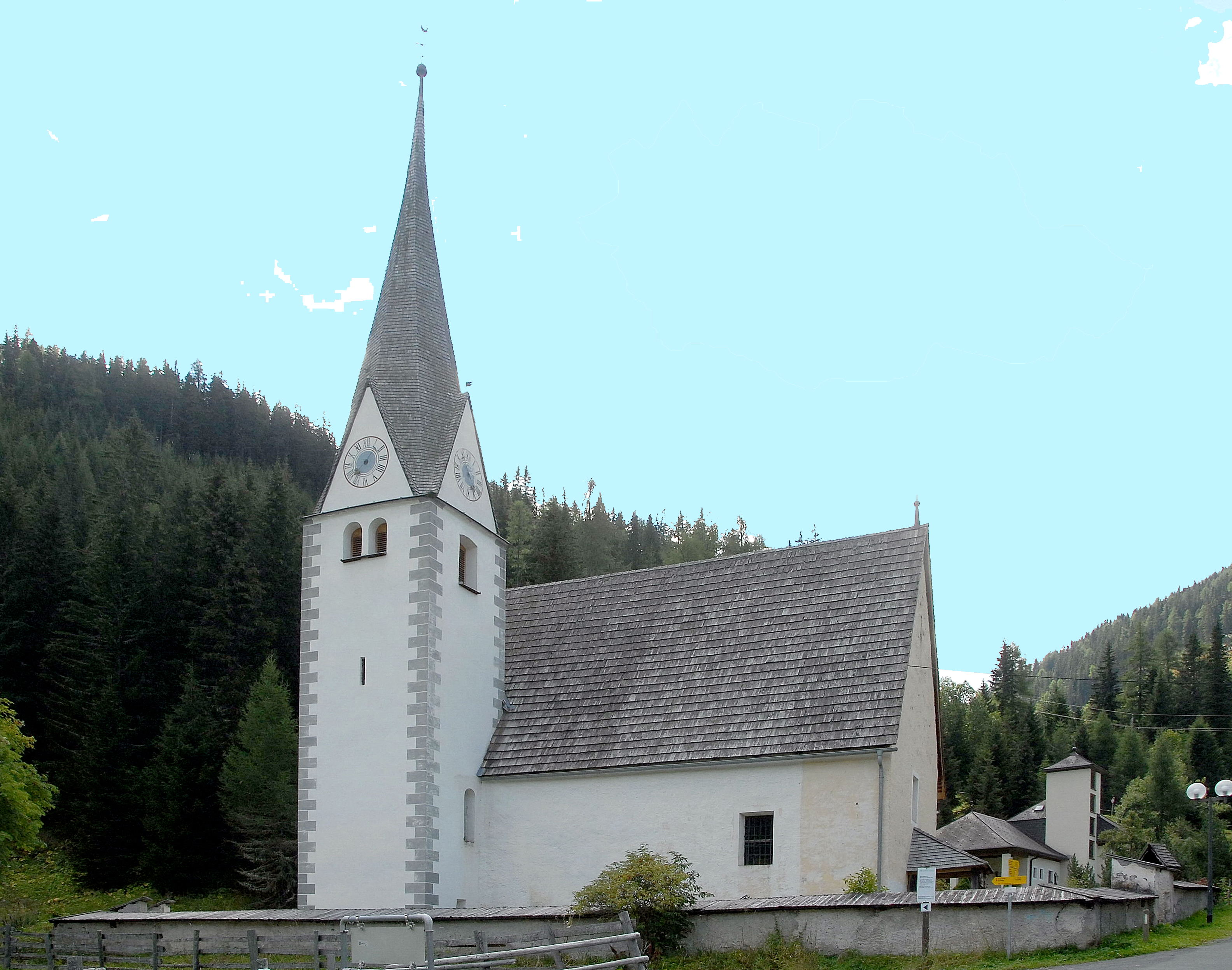 Parish church Saint Andreas at Innerkrems, municipality Krems, district Spittal on the Drau, Carinthia, Austria